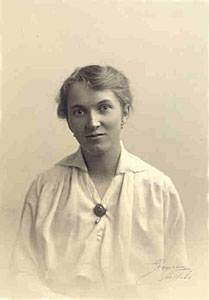 Portrait of politician Rut Adler at appr. 20 years of age